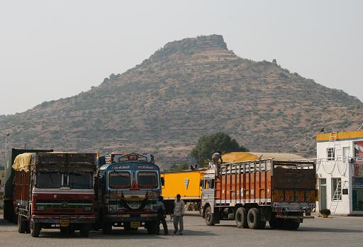 Laling fort near Dhule city.